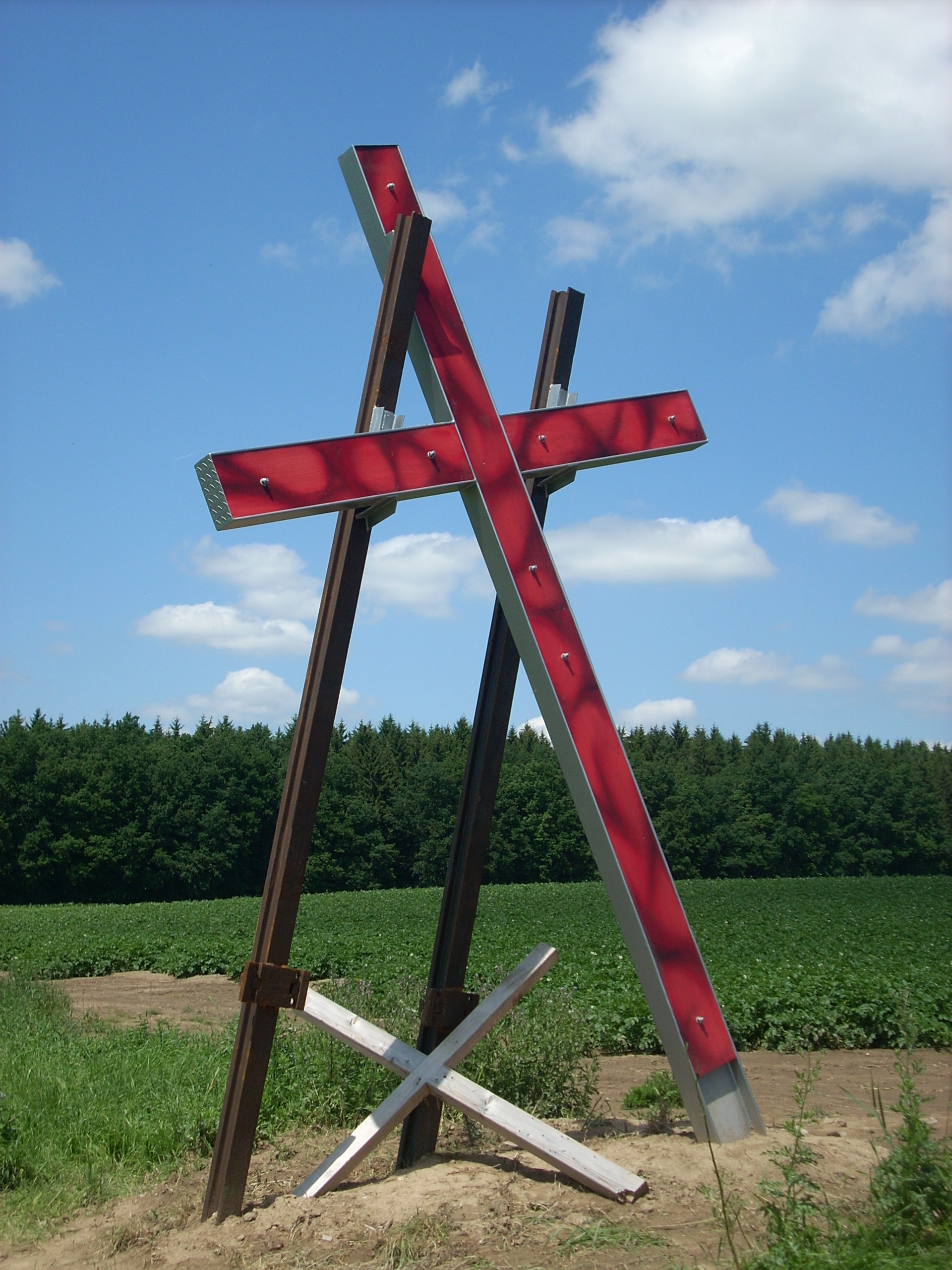 Meadow Budínka, Dobronín - new cross with the broken one